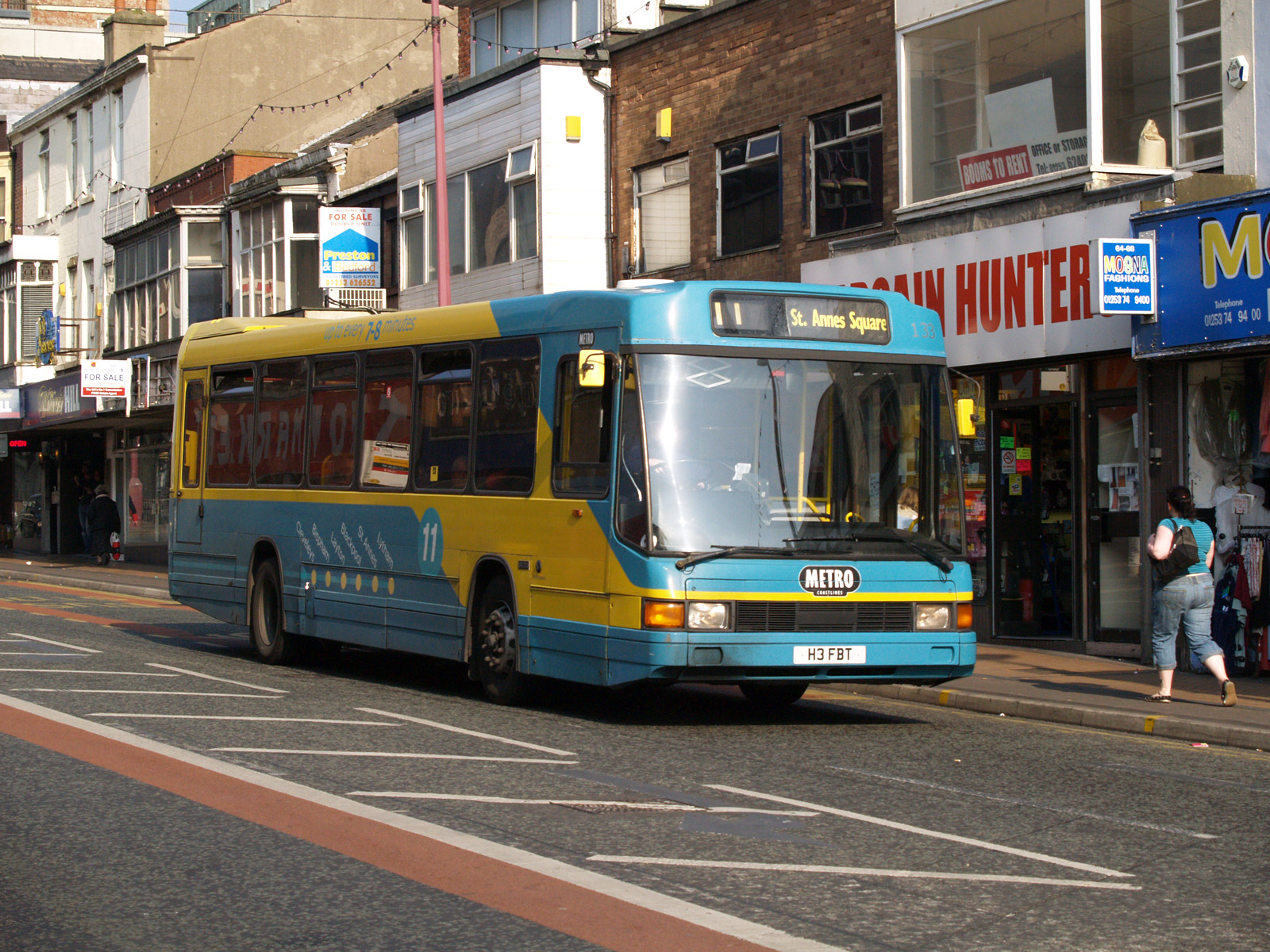 Blackpool Transport Services Limited (originally Fylde Borough Transport) 133 H3 FBT, a DAF SB220LC550 built 1991 with an Optare ‘Delta’ DP46F body on Talbot Road, Blackpool with the 16:17 Cleveleys to St. Annes Square via Bispham, Blackpool, Layton and South Shore 11 service. Friday 17th April 2009